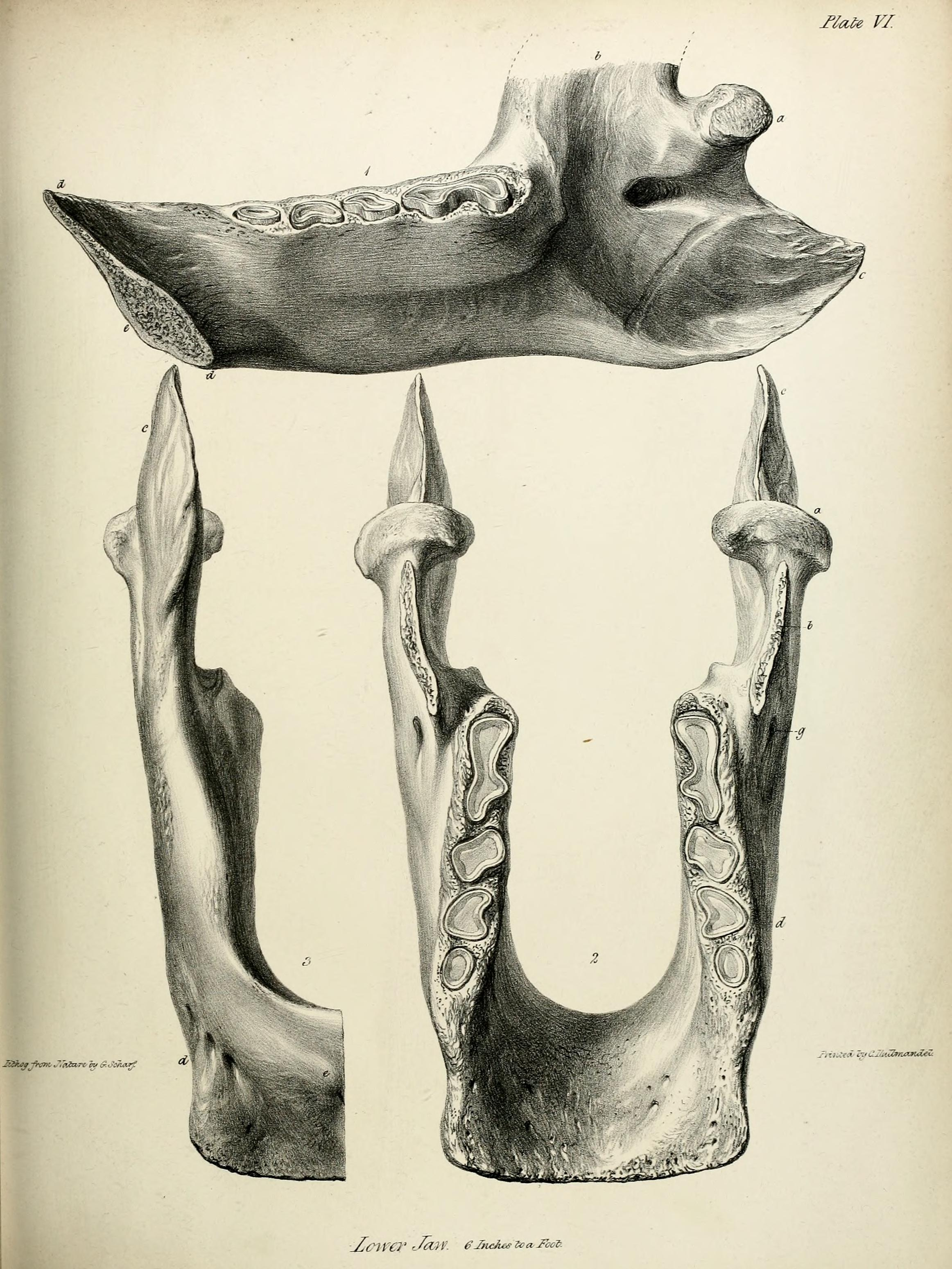 Description of the skeleton of an extinct gigantic Sloth, Mylodon robustus, Owen, with observations on ... Megatherioid quadrupeds in general /